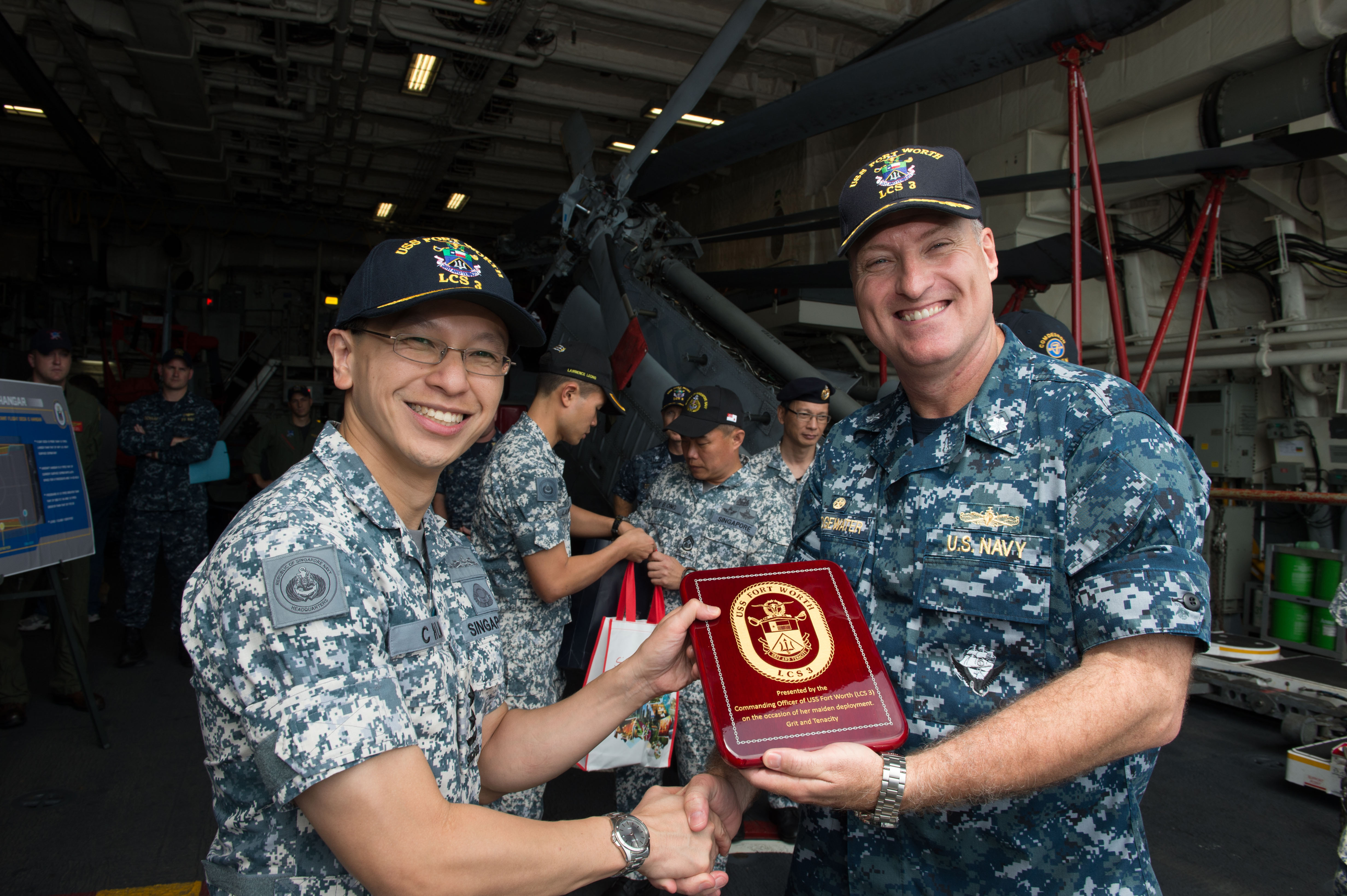 CHANGI NAVAL BASE, Singapore – (Feb. 9, 2015) – Cmdr. Kendall Bridgewater, commanding officer of LCS Crew 104 presents Rear-Admiral Lai Chung Han, Republic of Singapore Chief of Navy, a token gift after guiding a tour of the littoral combat ship USS Fort Worth (LCS 3) for Lai and his staff. Fort Worth is on a 16-month deployment to the U.S. 7th Fleet area of responsibility in support of the Asia-Pacific rebalance. (U.S. Navy photo by Mass Communication Specialist 2nd Class Antonio P. Turretto Ramos)